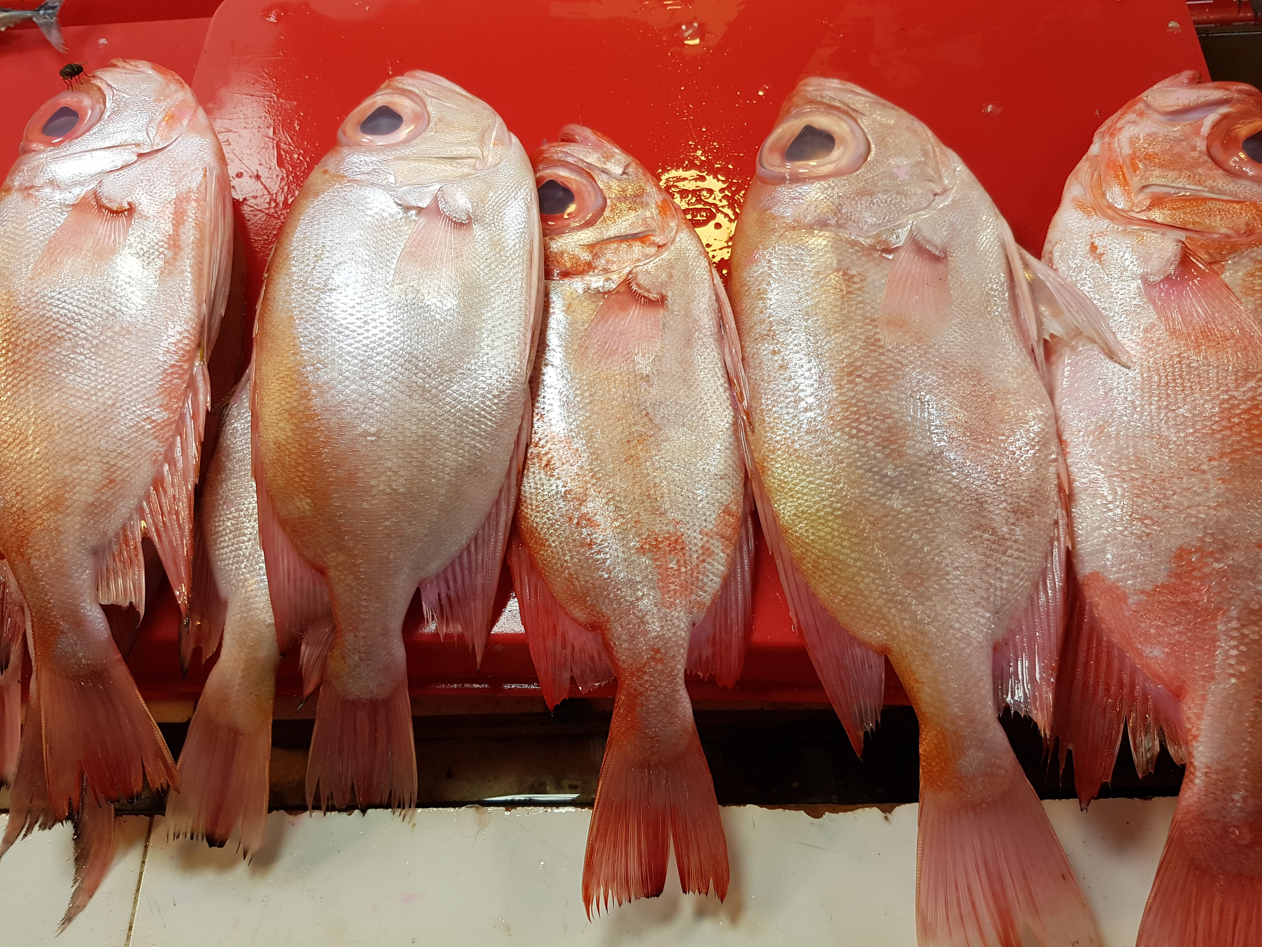 Priacanthus macracanthus (Red Bigeye) from the Philippines. Locally known as "dilat"